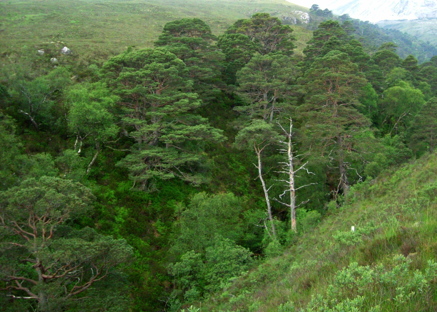 Scots Pine Pinus sylvestris, Allt a' Chuirn, Kinlochewe, Ross-shire, Scotland.